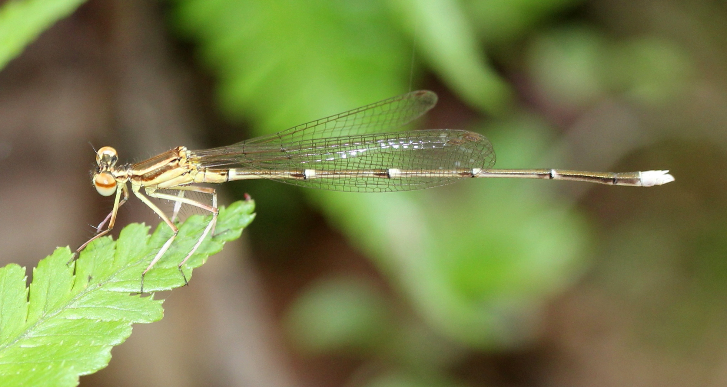 Copera annulata, young male in Mie prefecture, Japan.